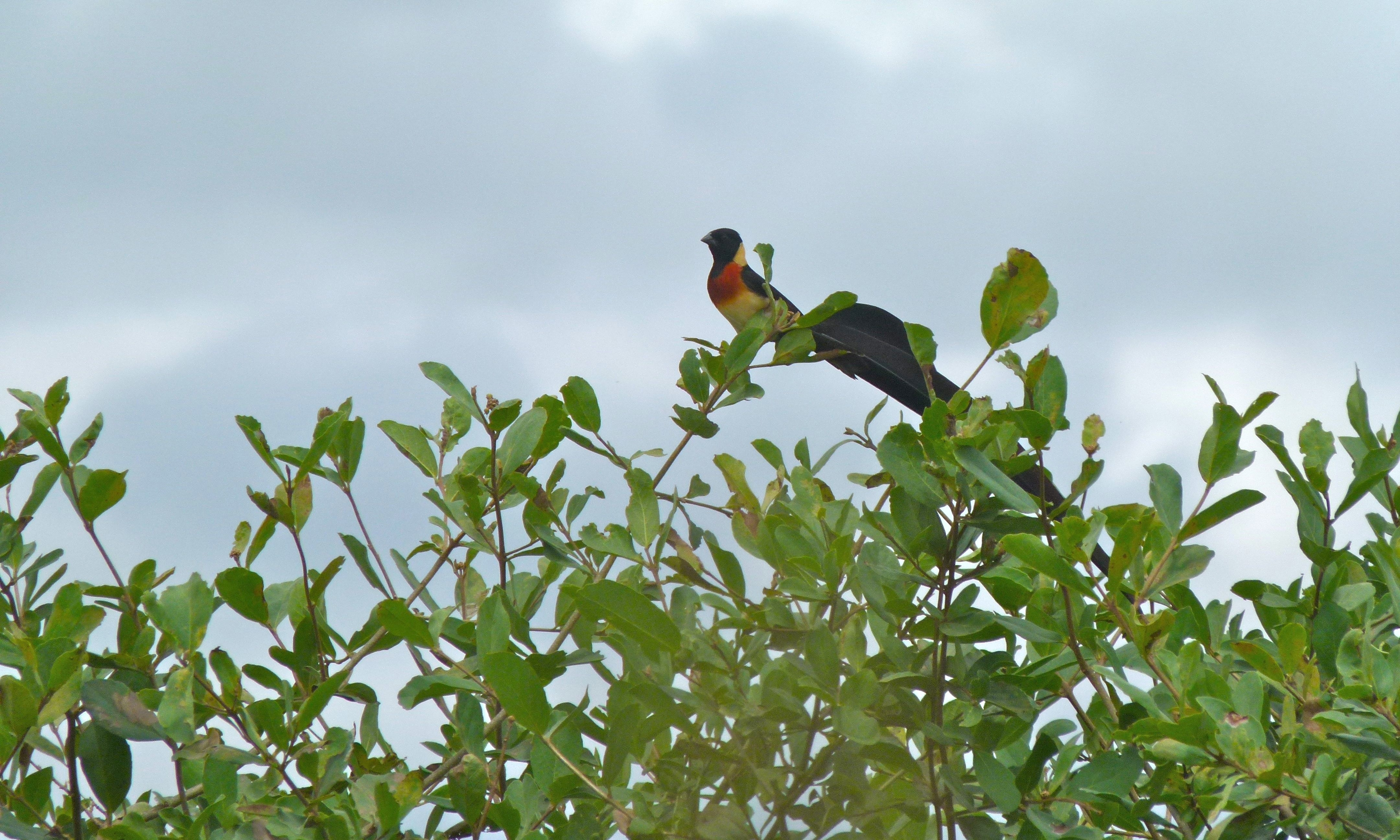 S127 East of Timbavati, Kruger NP, SOUTH AFRICA